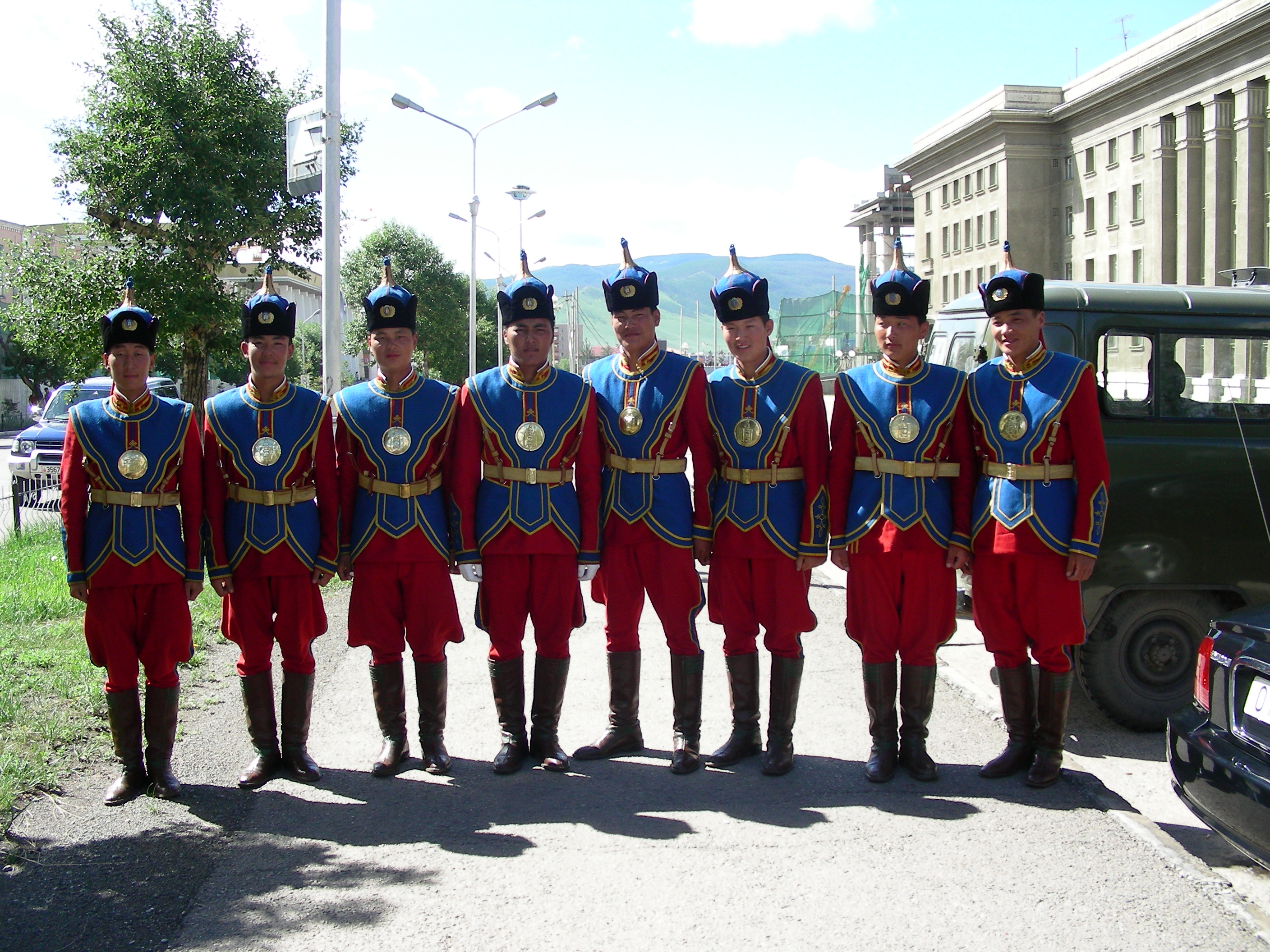 Mongolian police in traditional uniform during the 800th anniversary of the founding of the Mongolian Empire by Genghis Khan